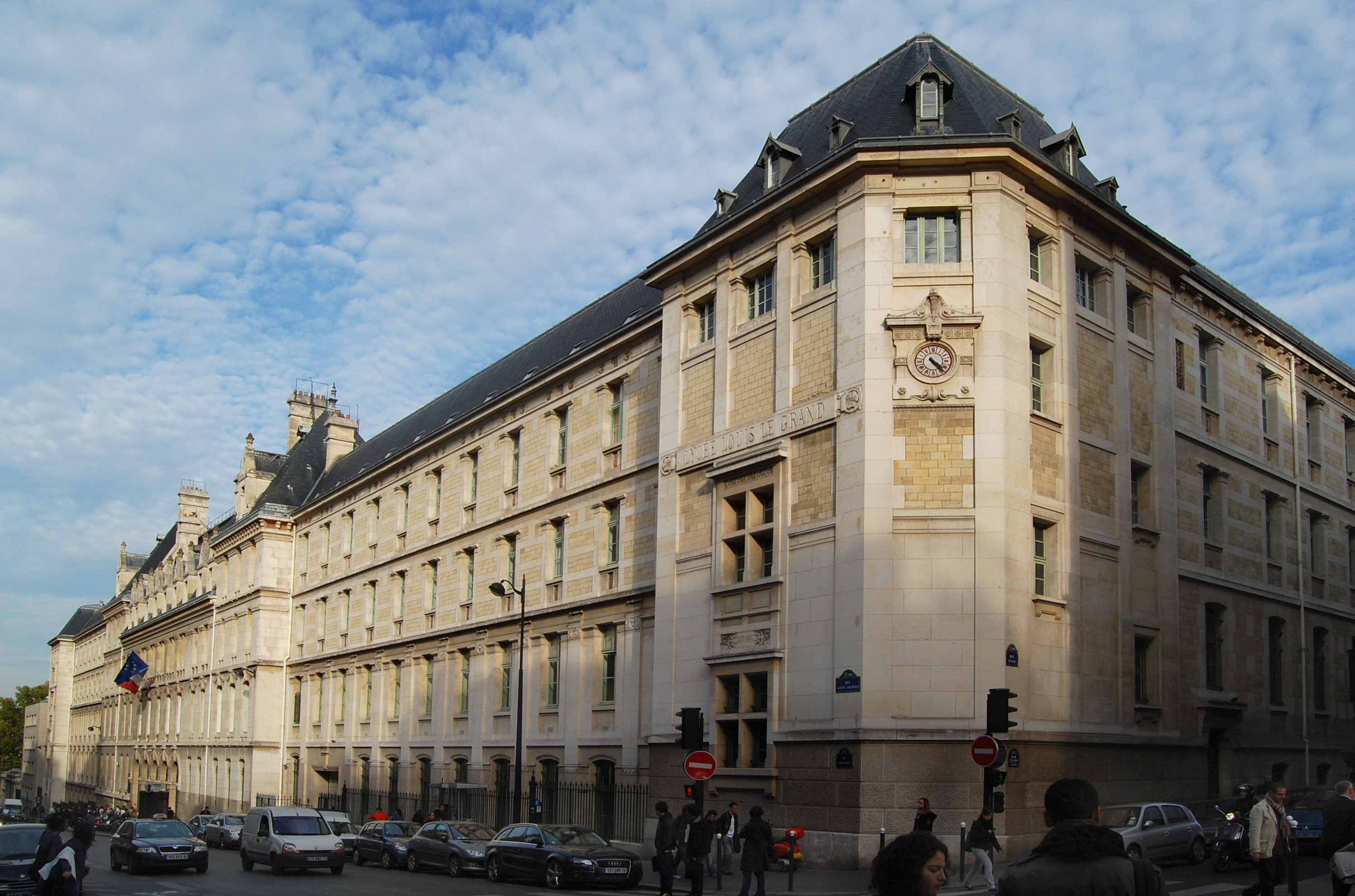 Secondary School Louis le Grand, Paris, France